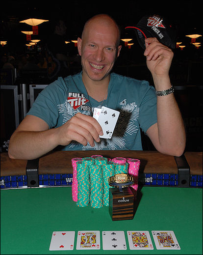 Greg Mueller Wins WSOP Event #33 $10,000 World Championship Limit Hold'em